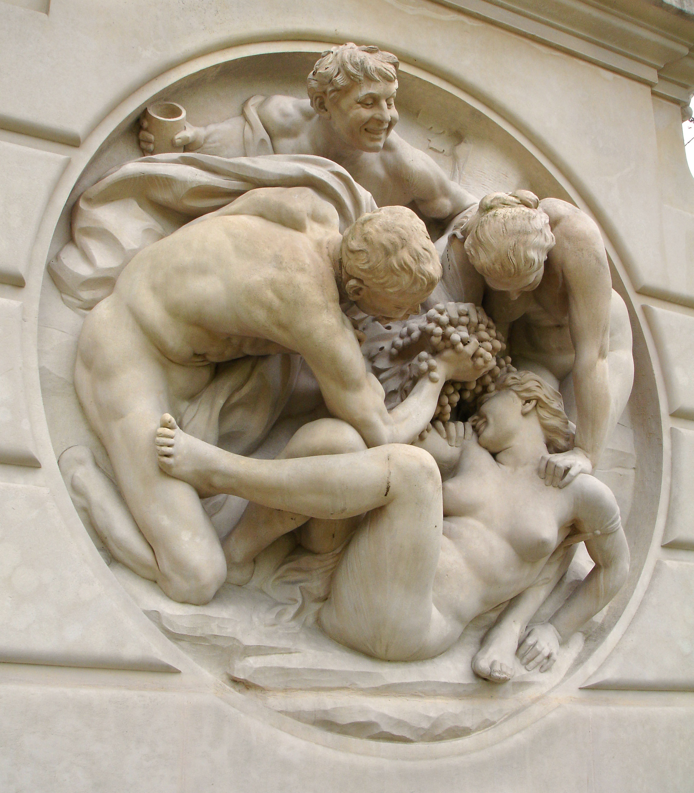 Bacchanale by Jules Dalou. The plaster was exhibited at the Salon of 1891. Located at the center of the fountain of the Greenhouses Garden of Auteuil in Paris, Tercé stone, circa 1895 - 1898.